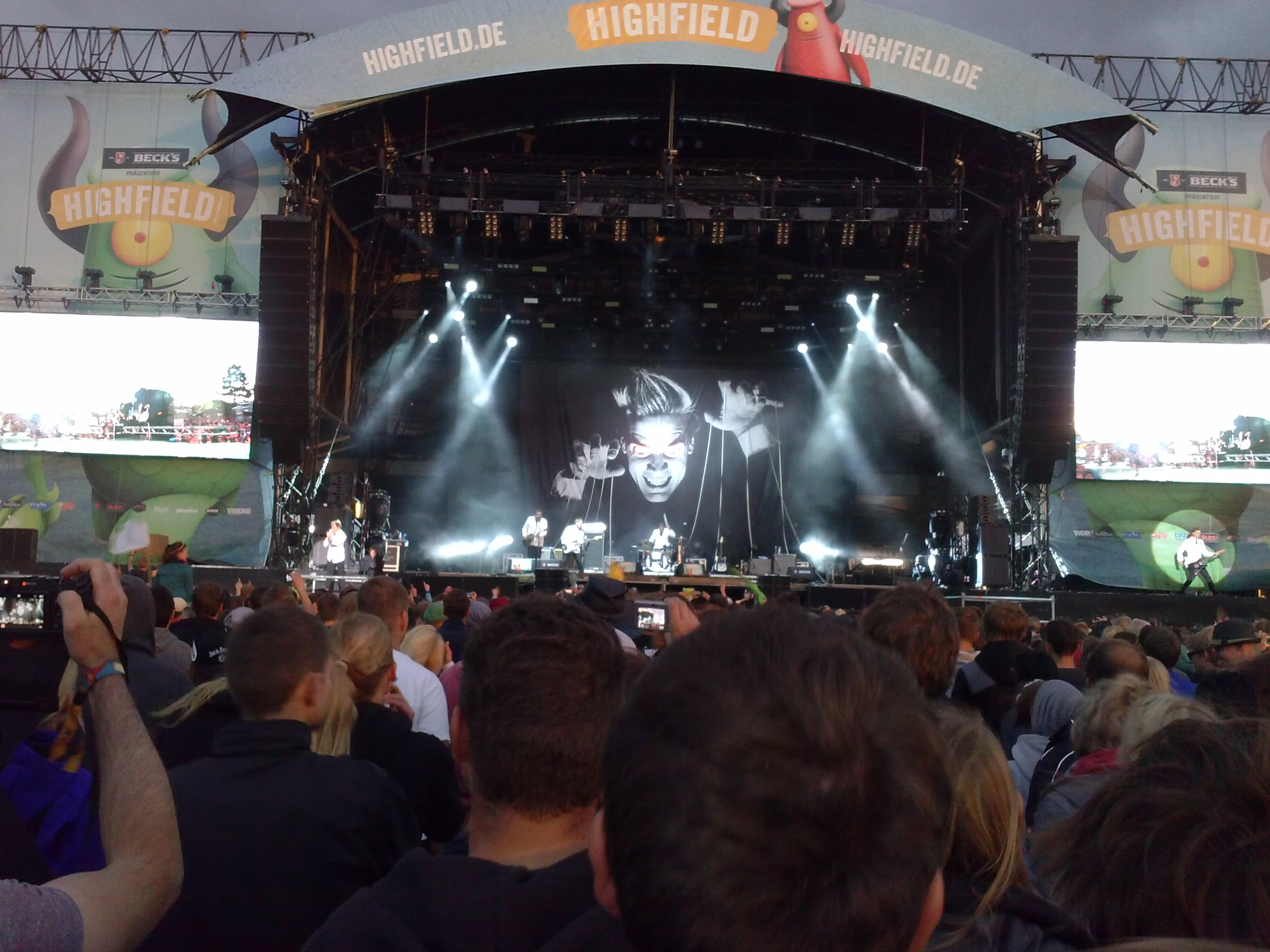 "The Hives" live at Highfield 2014